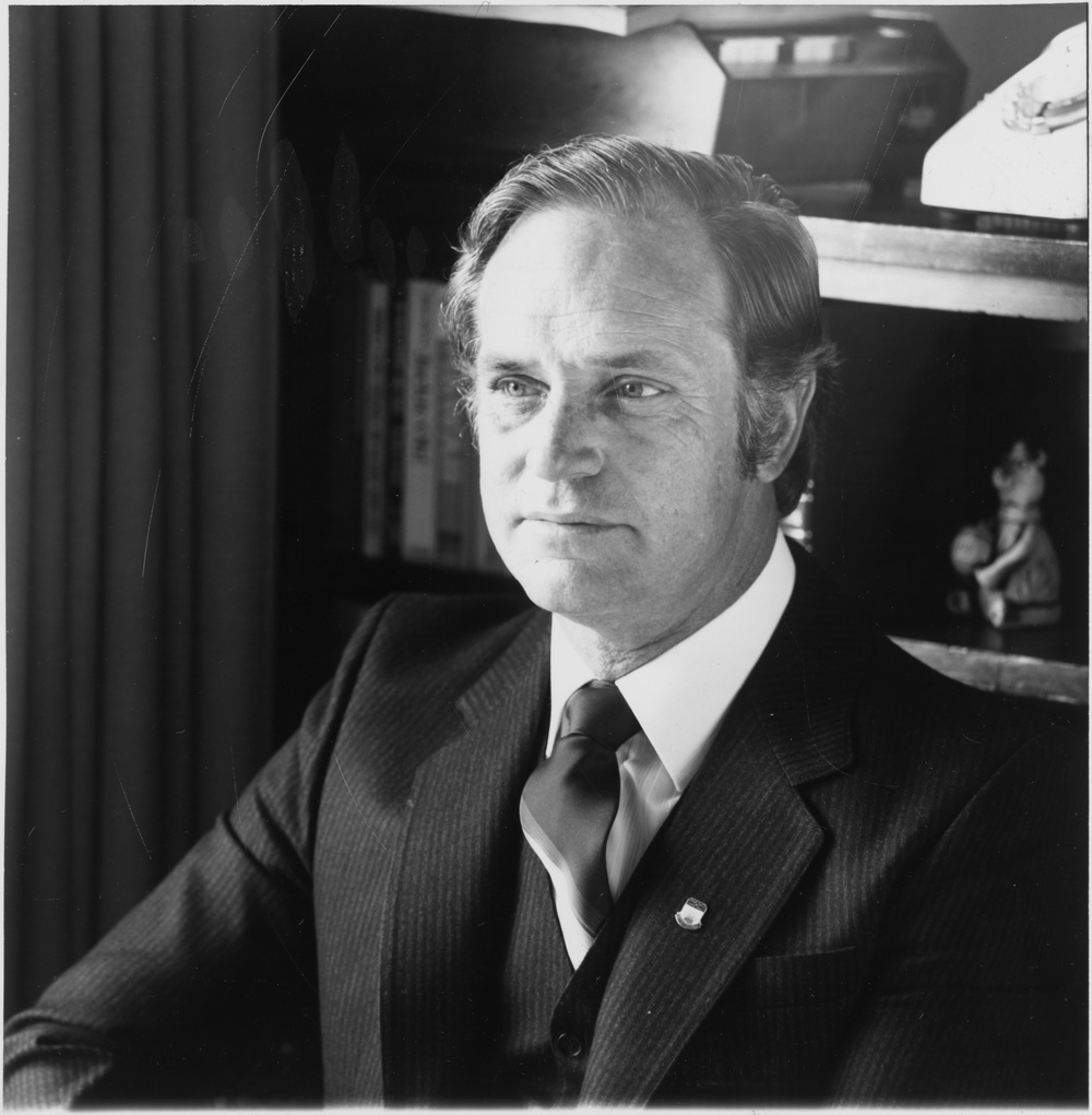 Bruce Craig Beetham, leader of New Zealand Social Credit Political League, Member of Parliament for Rangitikei 1978 - 1984.